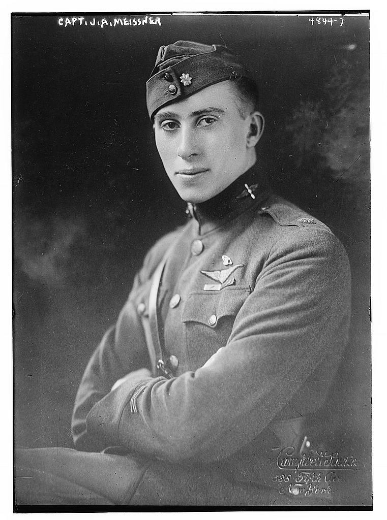 James Armand Meissner in 1919